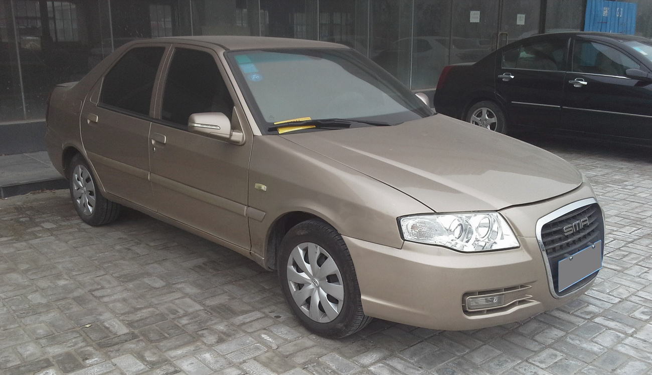 Shanghai Maple Haishang photographed in Yinchuan, Ningxia autonomous region, China.